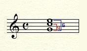 Six-four chord